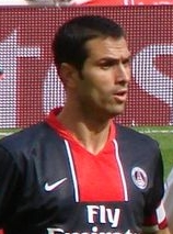 Pedro Pauleta from the Paris Saint-Germain during their match against Arsenal F.C. in the Emirates Cup (2007).